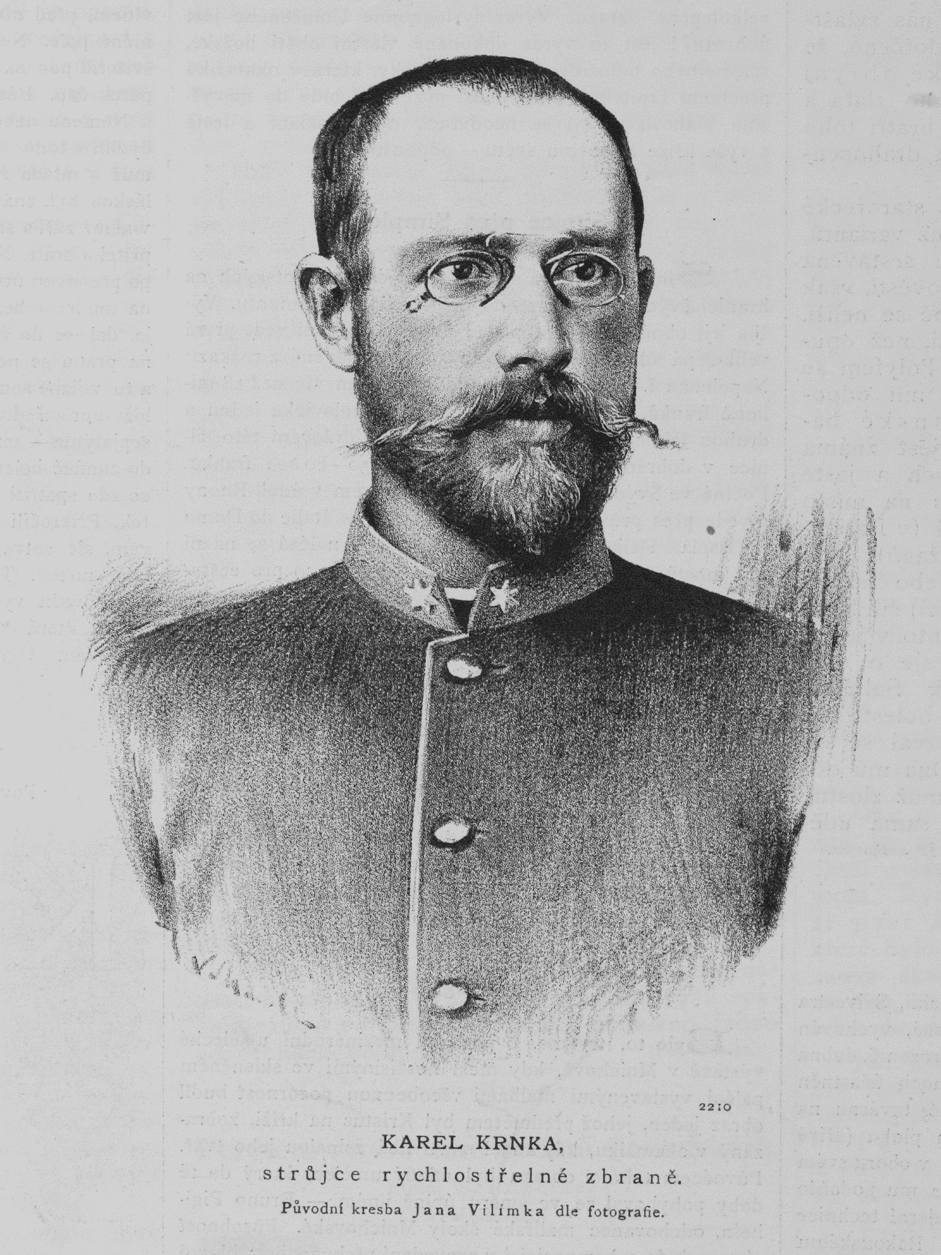 Portrait of Karel Krnka (1858 - 1926), Czech constructor of firearms.